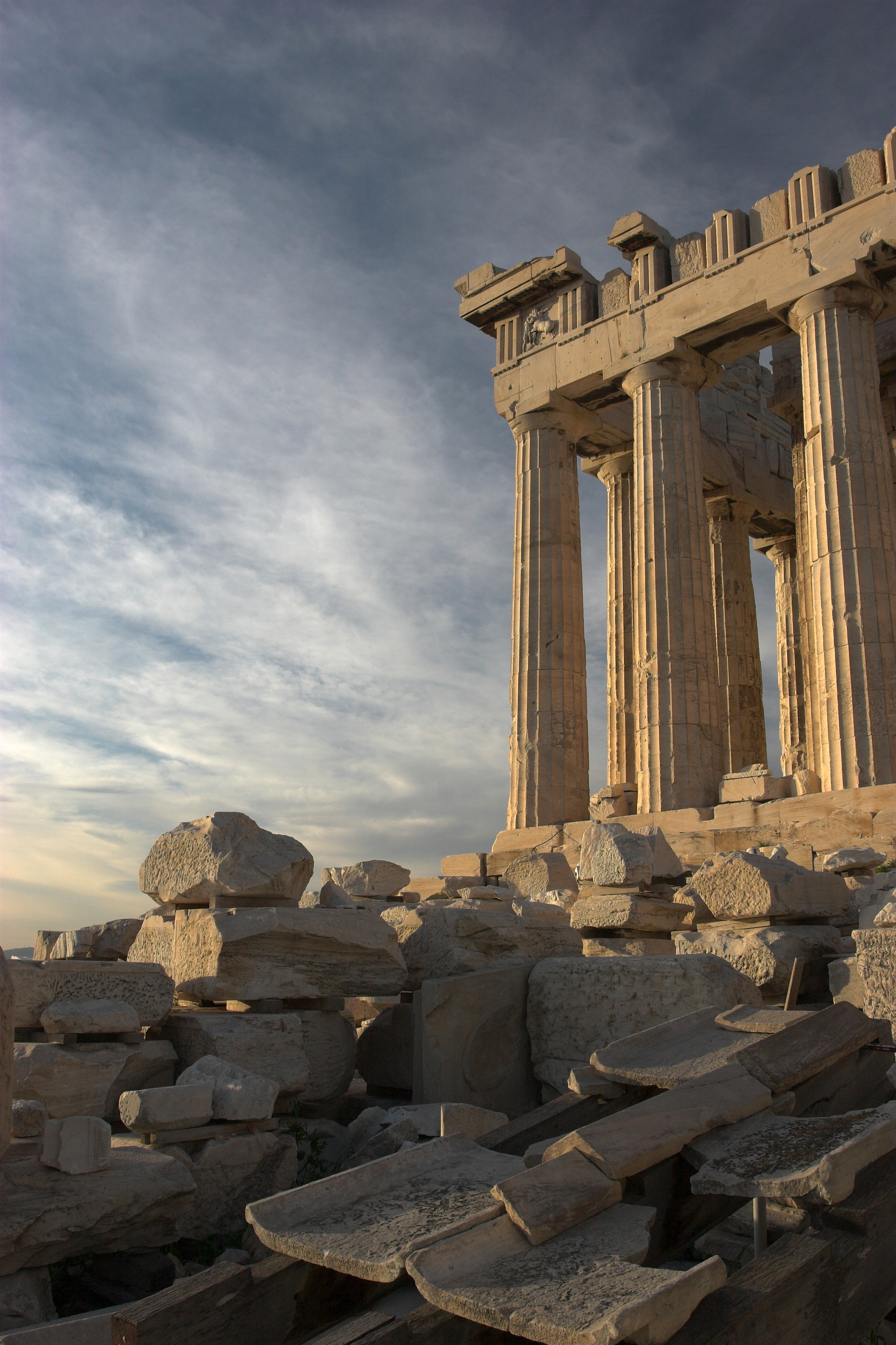 Picture of Parthenon I took in late afternoon.